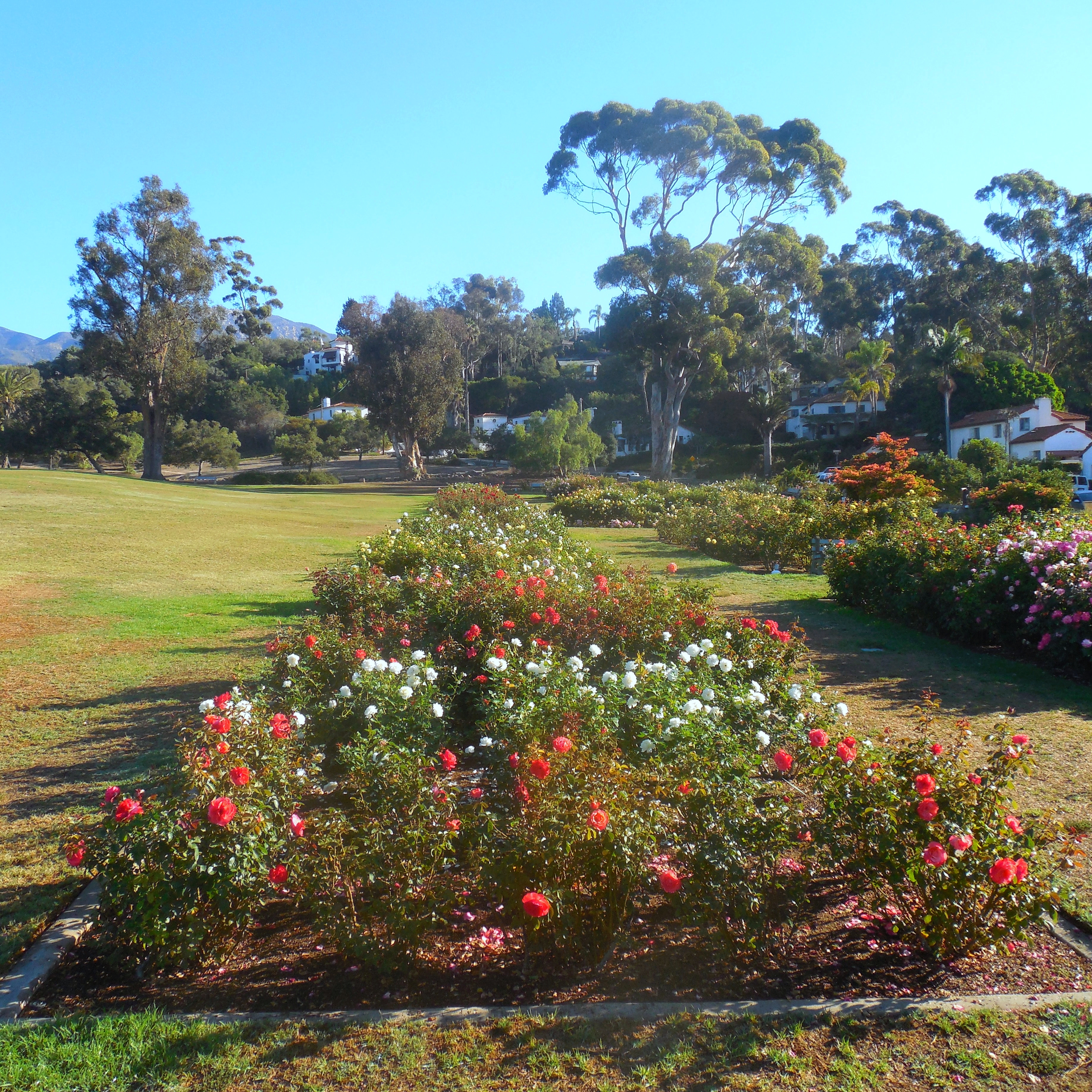 View of the A.C. Postel Memorial Rose Garden in Mission Historical Park, Santa Barbara, California, 2015